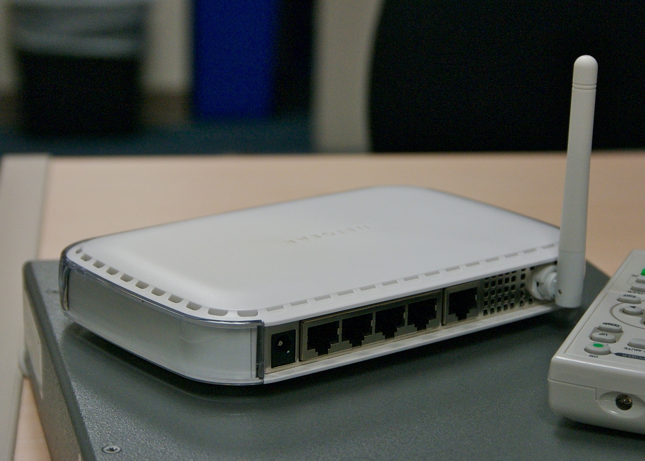 Internet wireless router